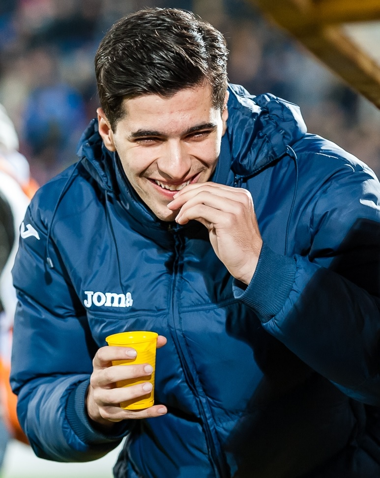 Saeid Ezatolahi during FC Rostov game against PFC CSKA Moscow on 12 March 2016.